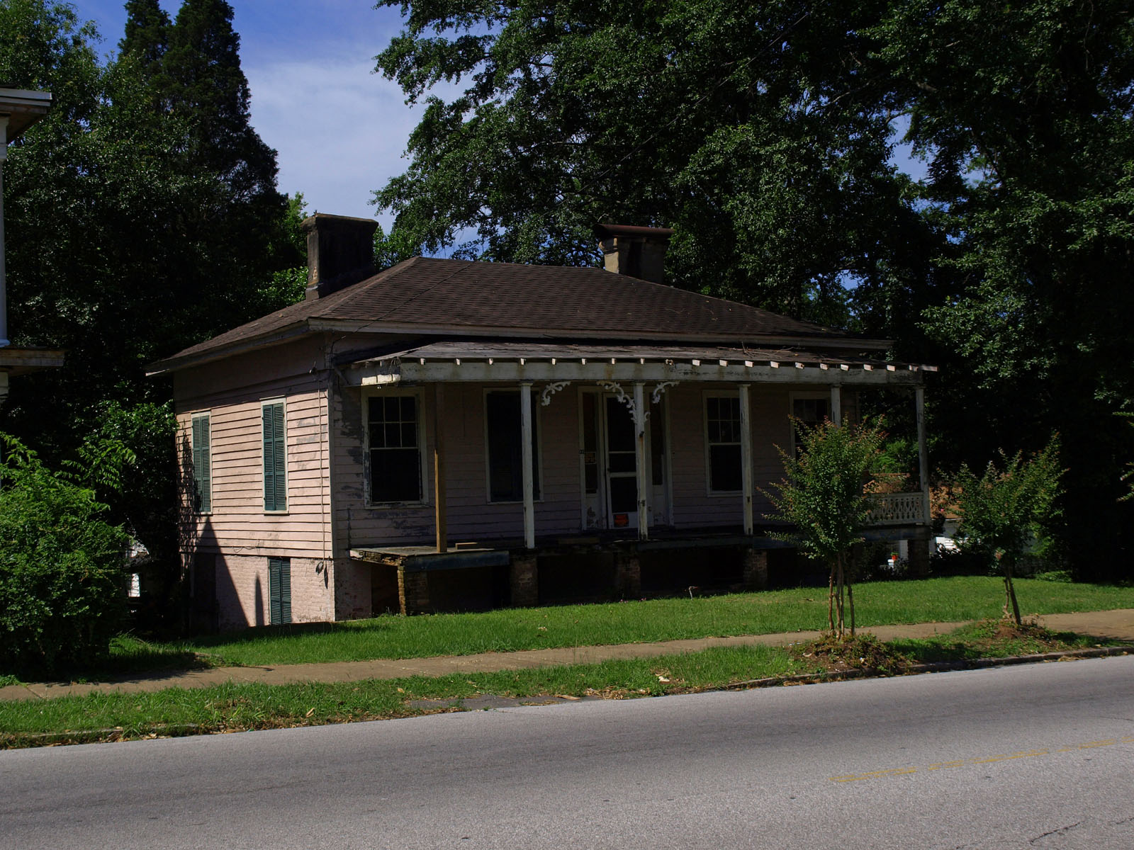 Front (north) side of the Opp Cottage in Montgomery, Alabama